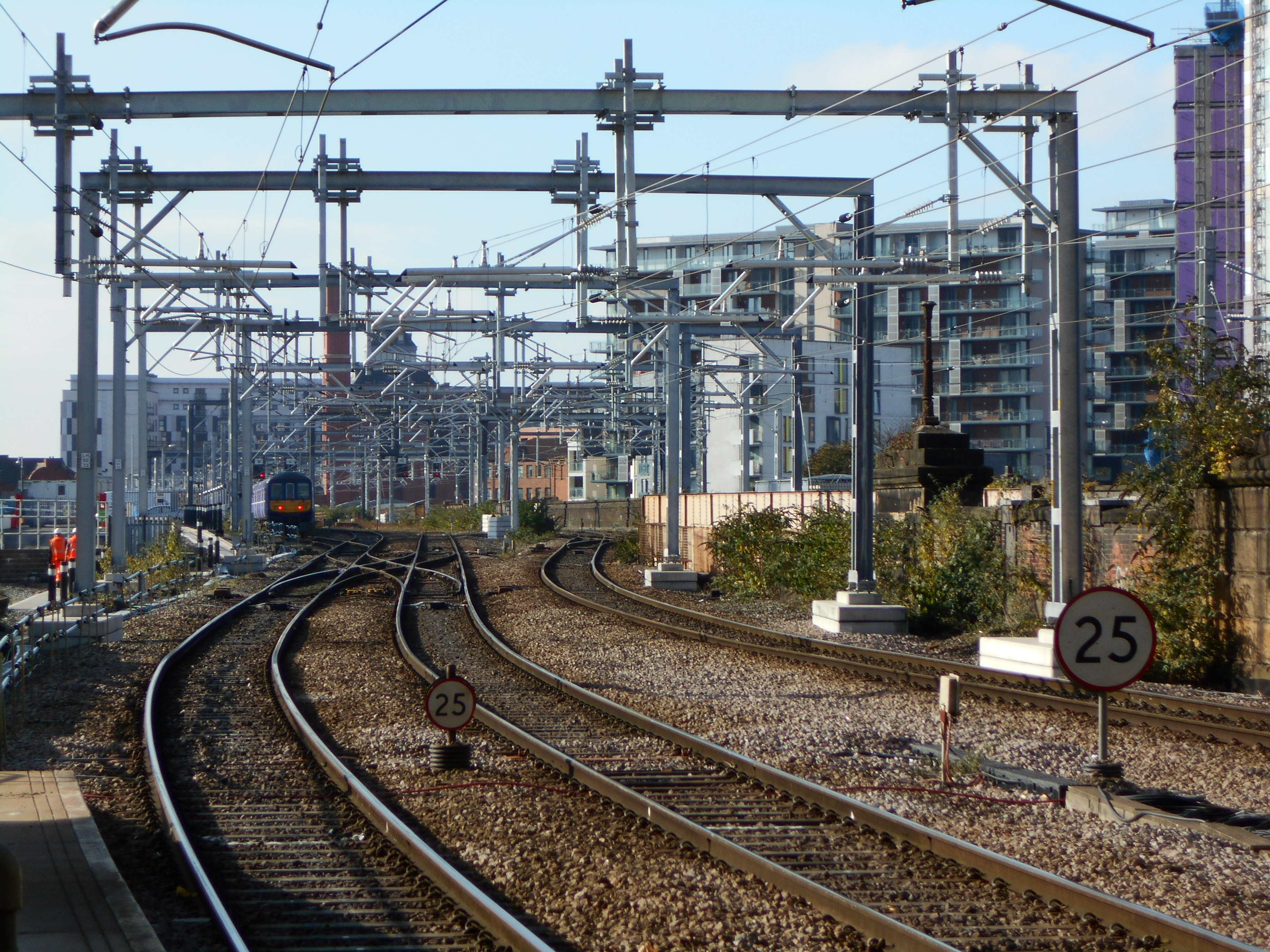 Manchester Victoria western approach lines.